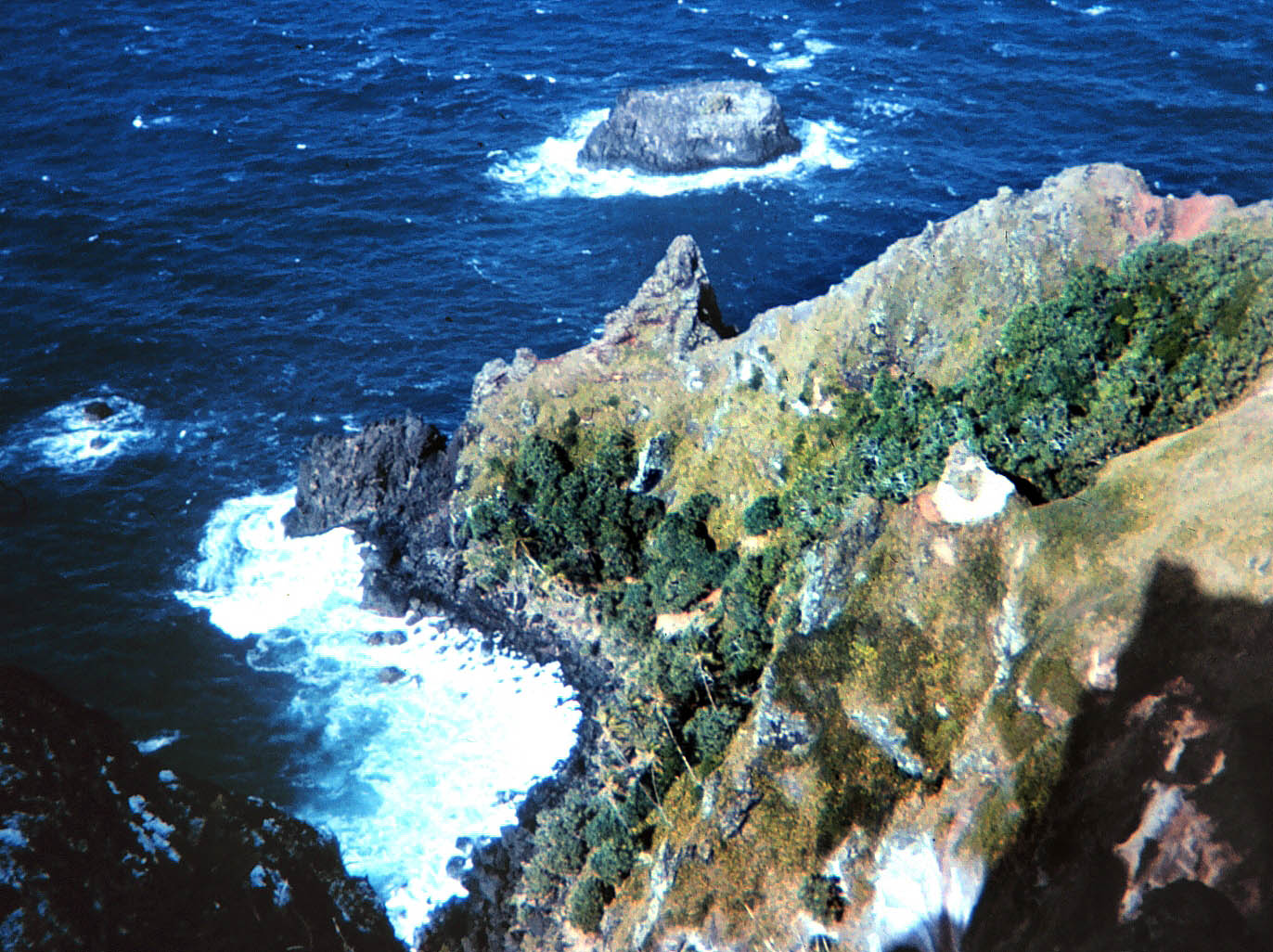 Pitcairn Island, Southern Pacific Ocean